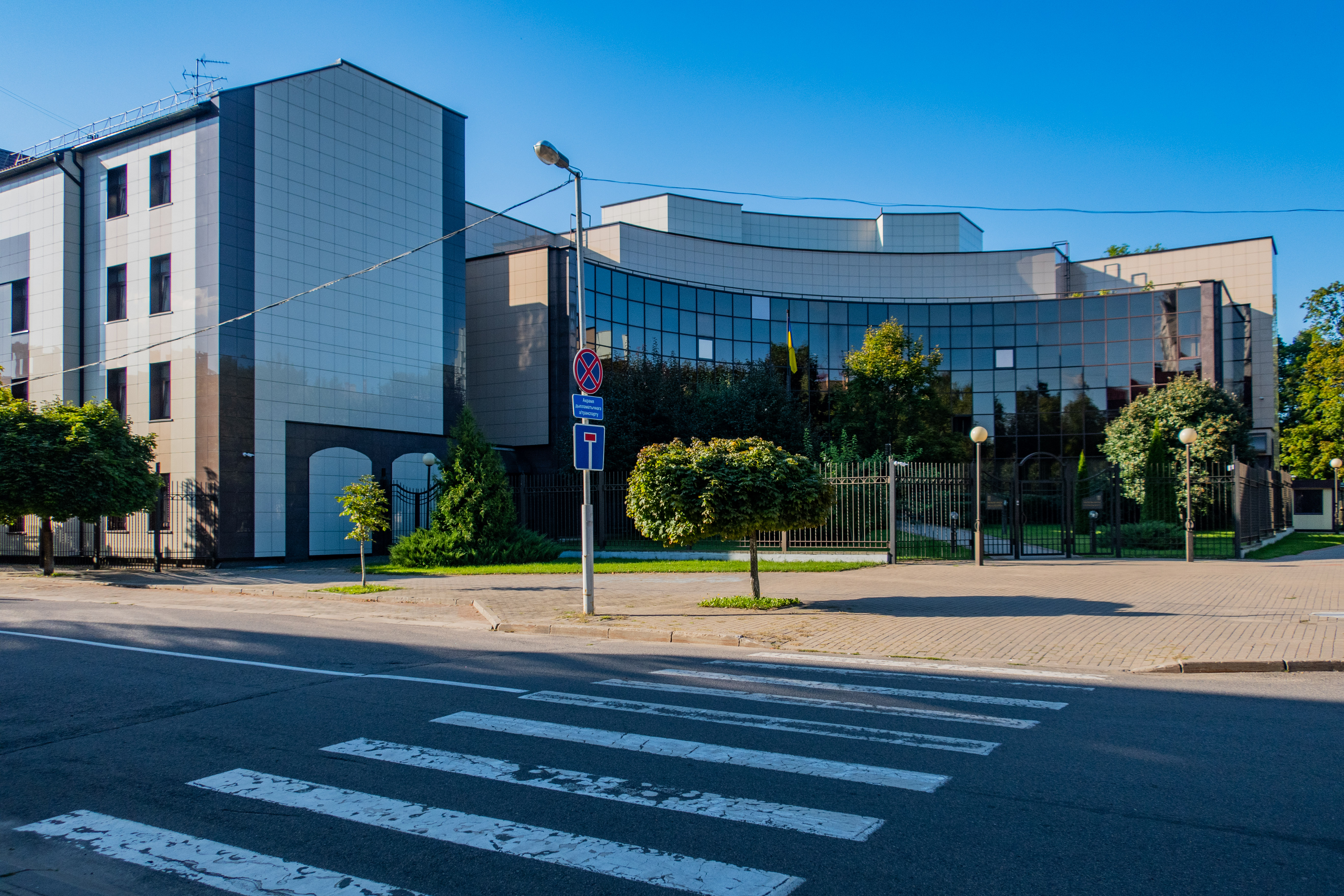 Embassy of Ukraine in Belarus. Minsk, Belarus